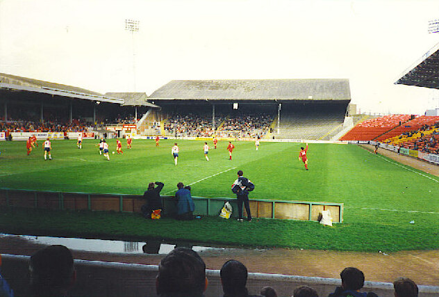 The old Beach End Stand, Pittodrie. The last match before the old Beach End bit the dust: Aberdeen vs. Falkirk (3-0)